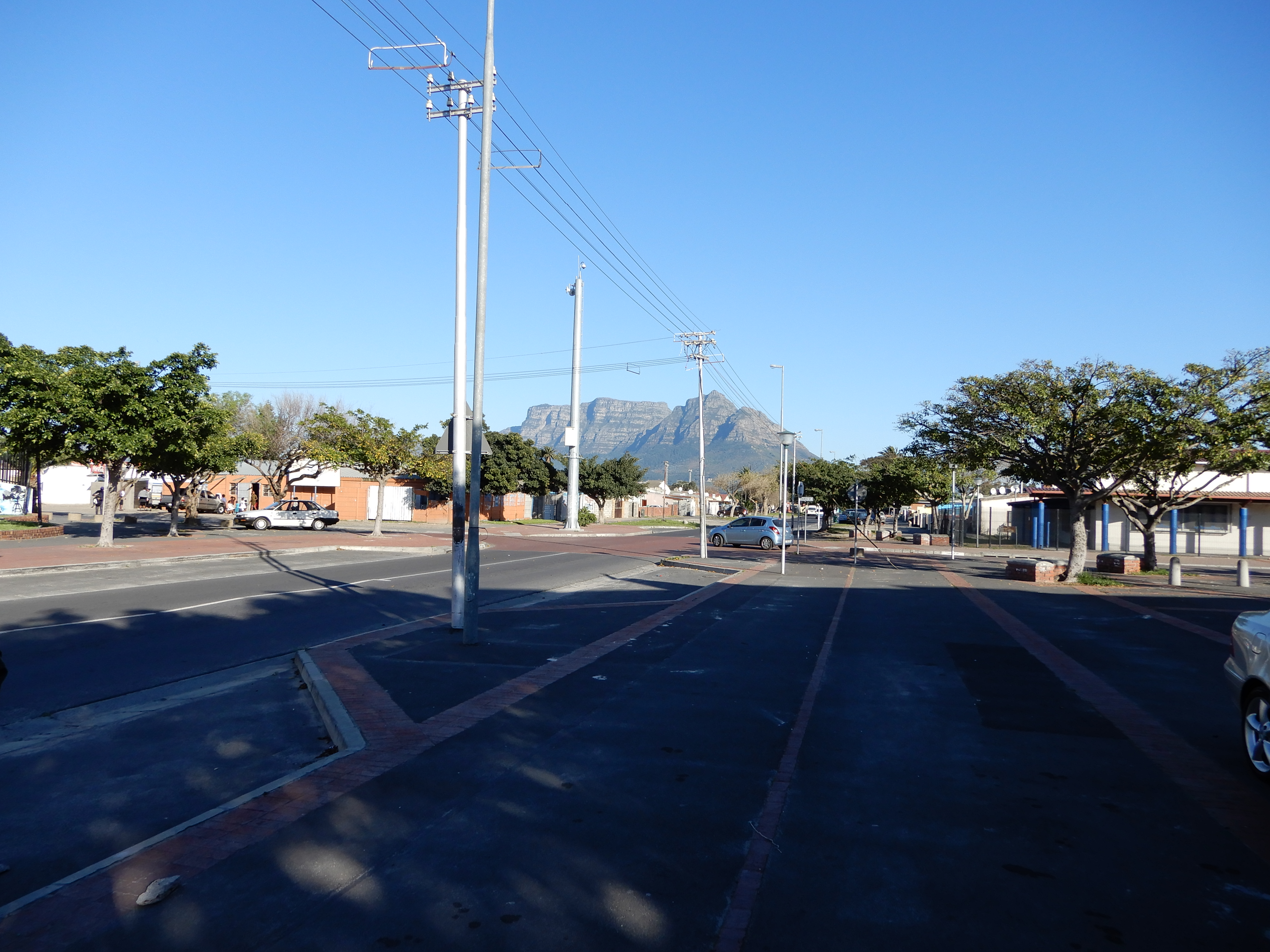 The township Langa with Table Mountain in the background.